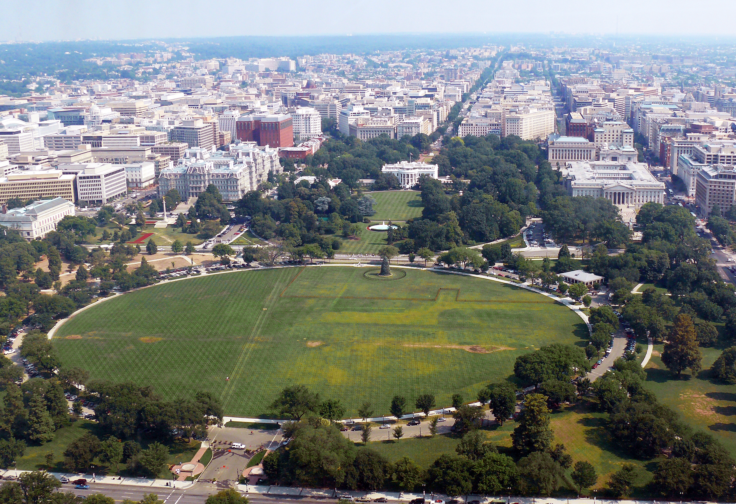 The Ellipse and the White House, Washington DC, seen from the Washington Monument.